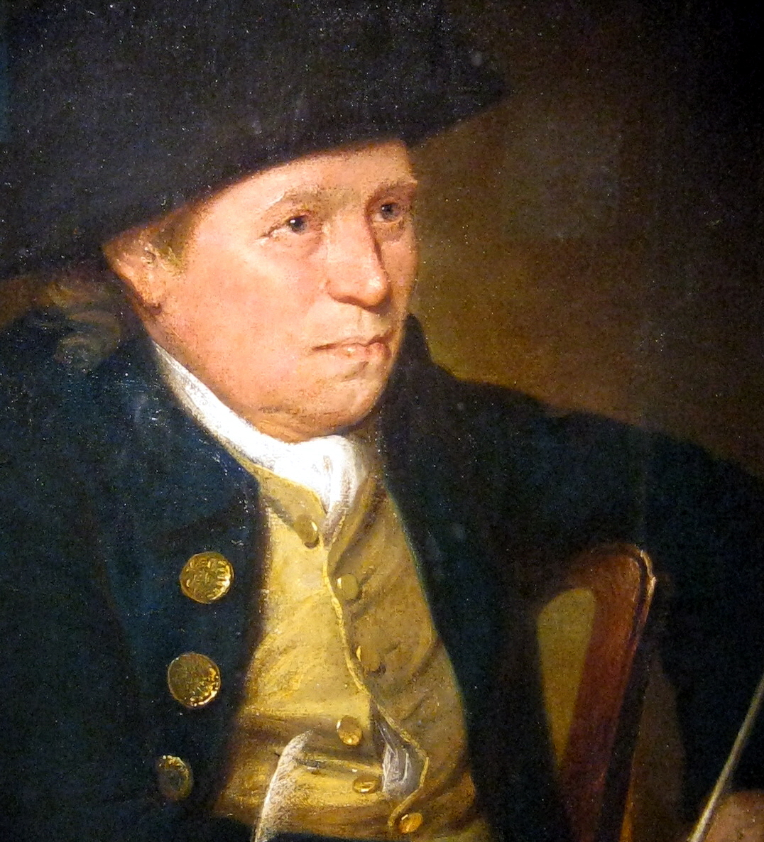 Part of portrait in oils of John Freeth by unknown artist circa 1800. On display in the Birmingham Museum and Art Gallery.